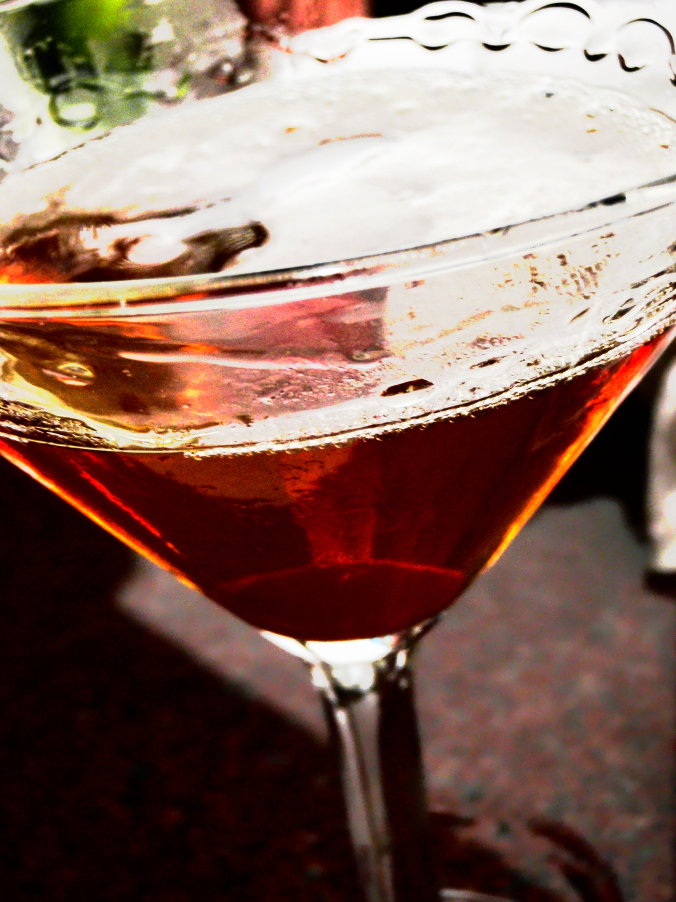 Bourbon, vermouth, and bitters